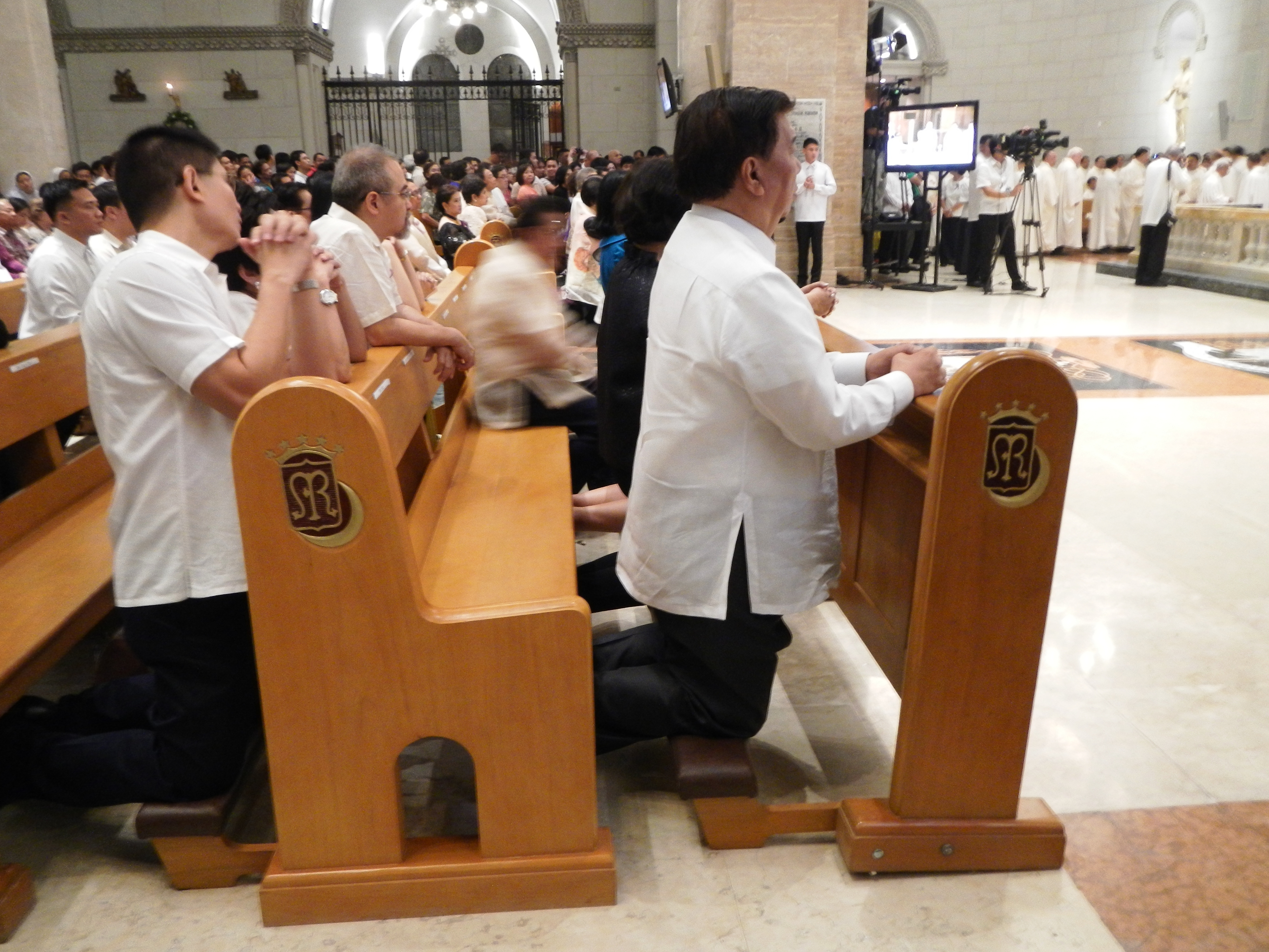 The most pious Senate President Franklin Drilon Manila Cathedral reopens after two years of reconstruction work (Manila Cathedral-Basilica Re-Opening (April 9, 2014 Eucharist after Restoration and Retrofitting) Manila Cathedral